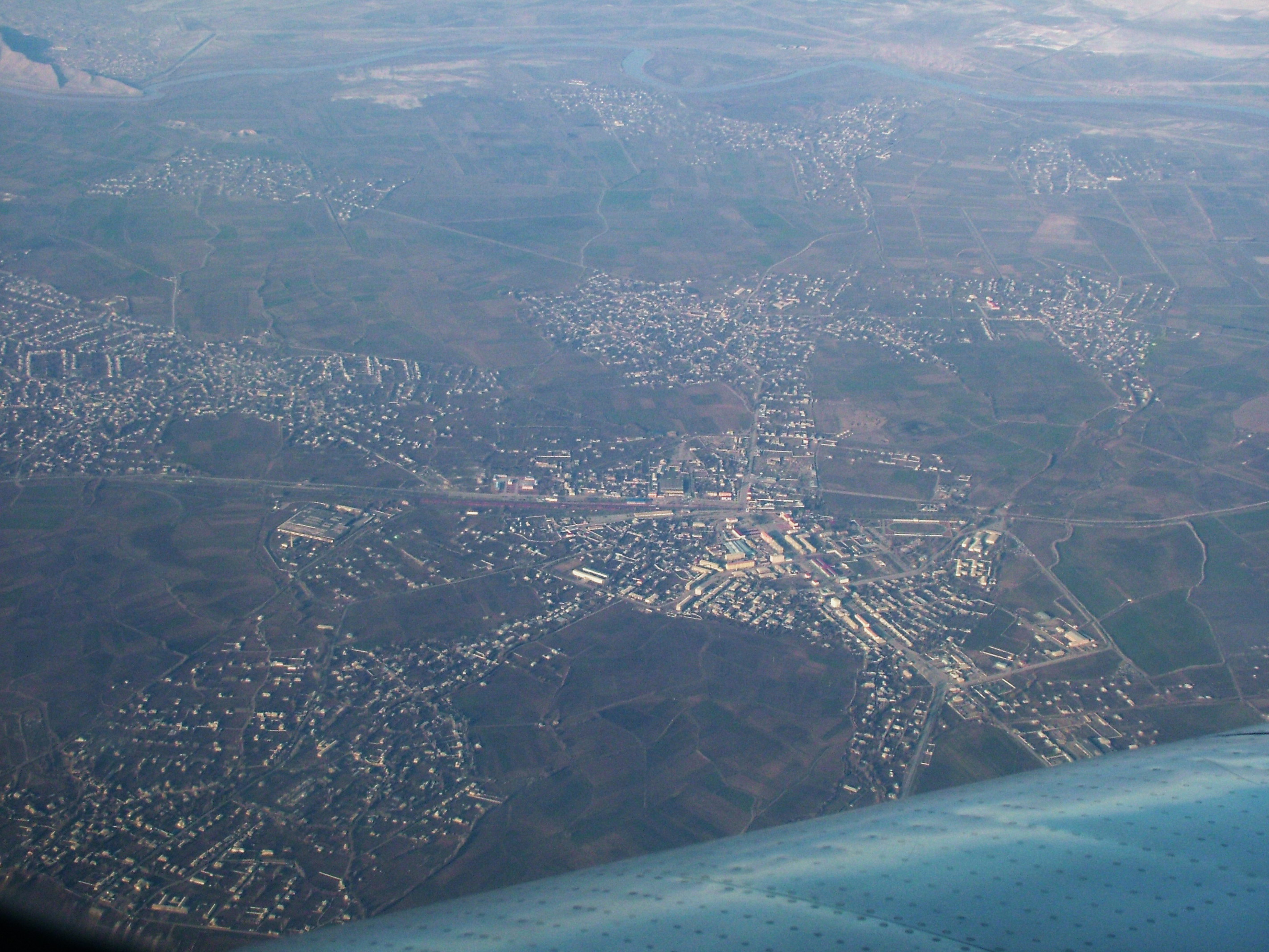 sharur_view_from_plane (Nakhchivan - Azerbaijan)